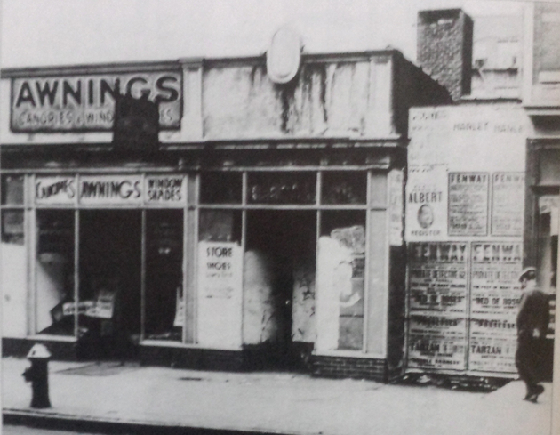 see file name